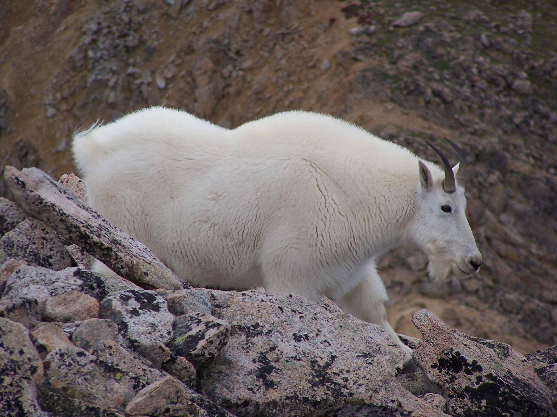 Mountain Goat - Oreamnus Americanus - Mount Huron, Colorado